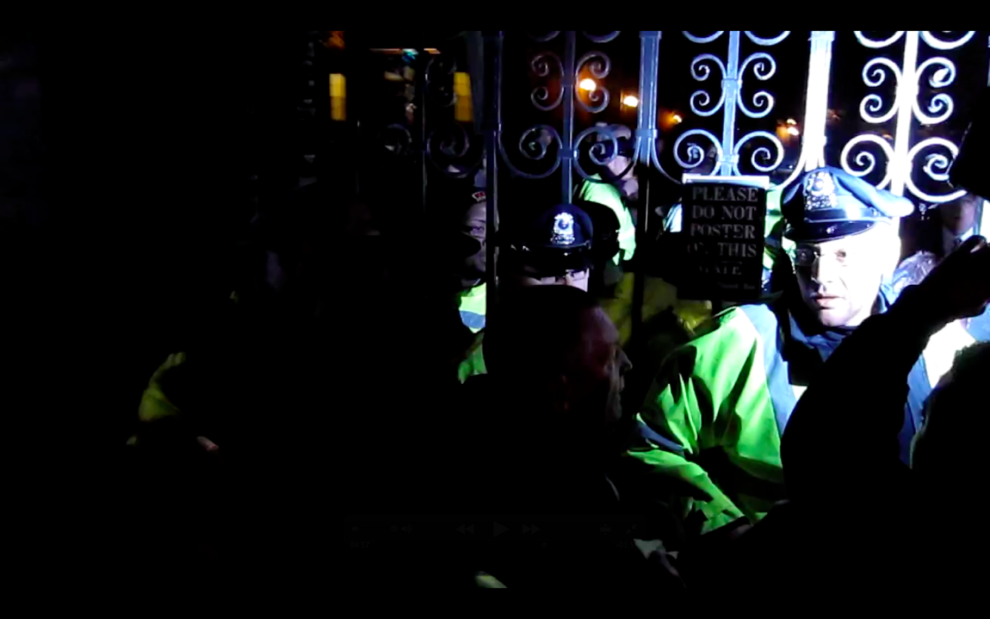 Marchers attempt to enter Harvard Yard in order to establish Occupy Harvard. This photo shows an officer left on the outside of Harvard Yard after Thayer Gate has been closed.